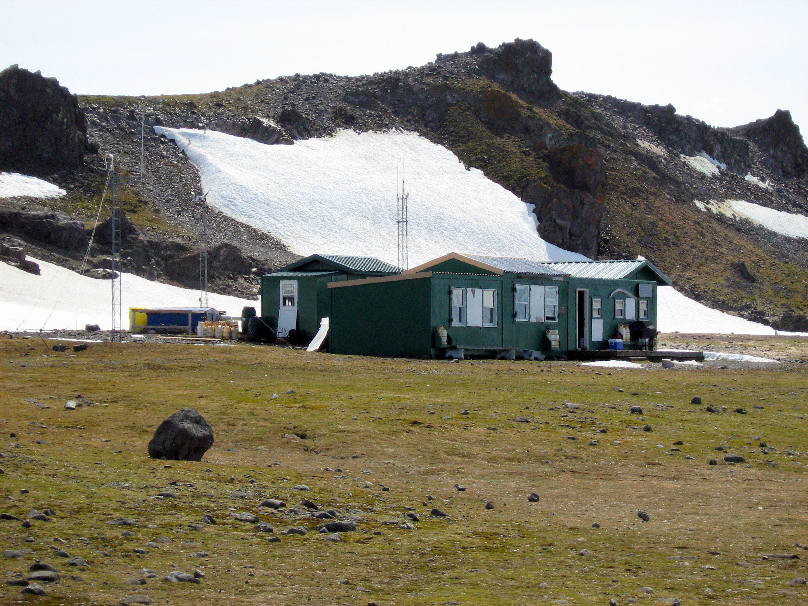 Copacabana field Hut, King George Island, South Shetlands